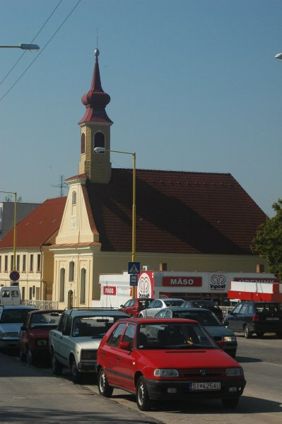 Holíč, lutheran church